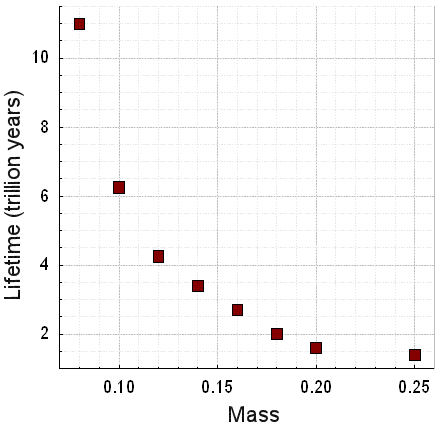 This diagram shows the predicted main sequence lifetime of a red dwarf star based upon its mass relative to the Sun. After: Adams, Fred C.; Laughlin, Gregory; Graves, Genevieve J. M. "Red Dwarfs and the End of the Main Sequence". Gravitational Collapse: From Massive Stars to Planets: 46–49, Revista Mexicana de Astronomía y Astrofísica. Retrieved on June 24, 2008.